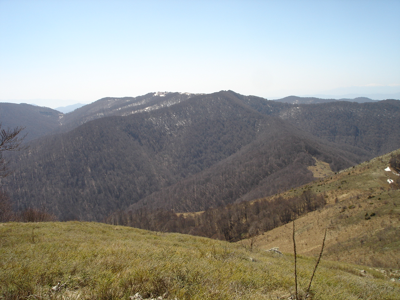 Plačkovica mountain, Macedonia